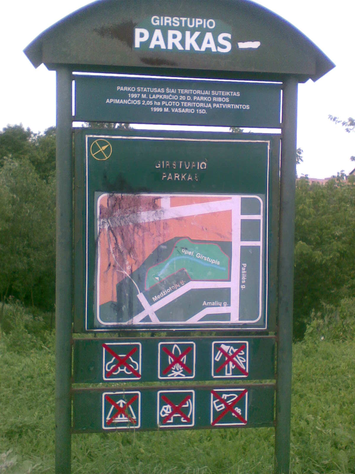 Girstupio park scheme.